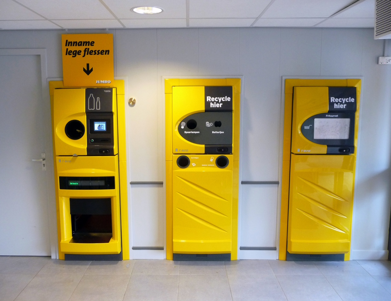 Tomra 820